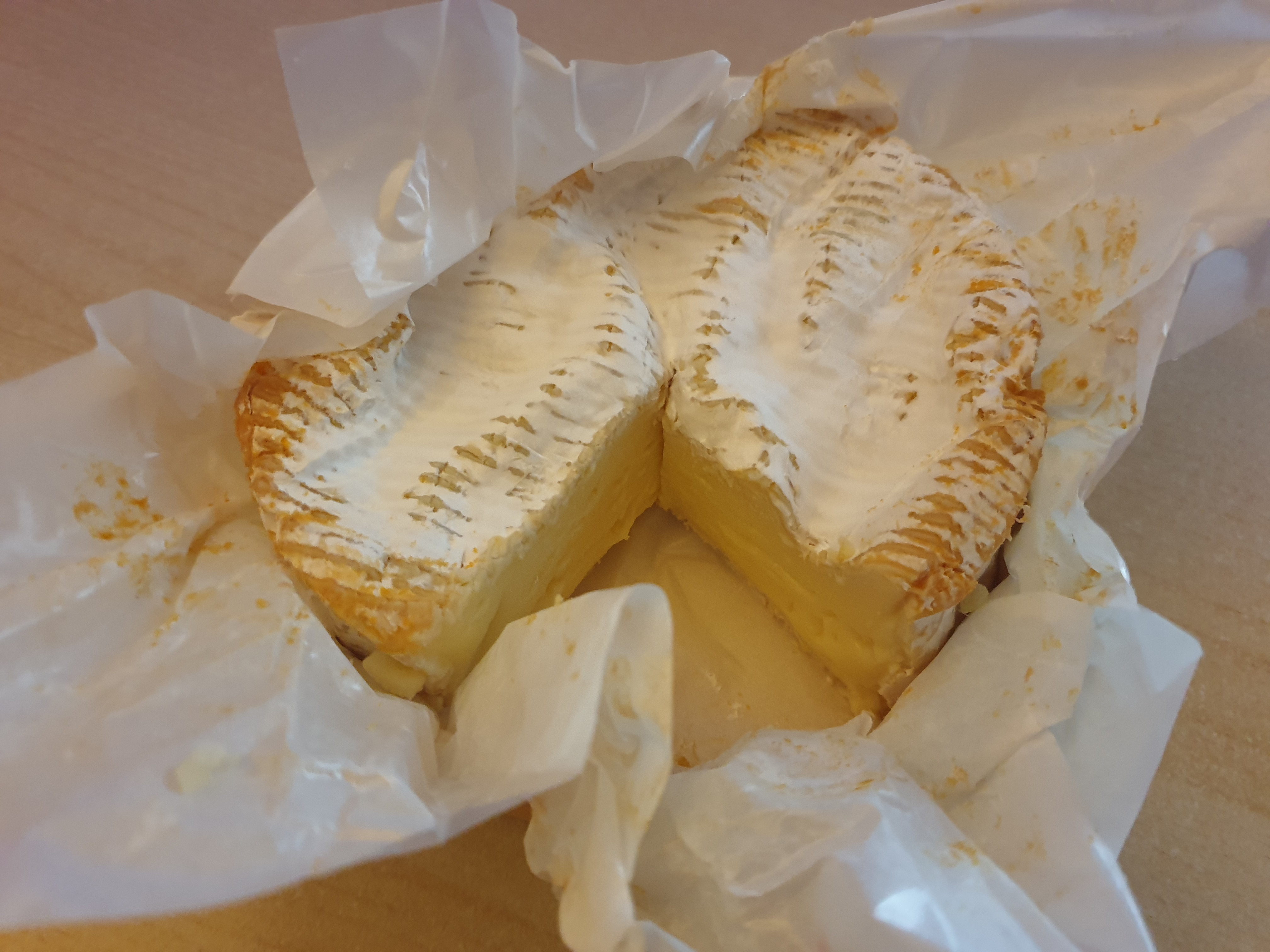 Camembert of Normandie made from raw cow’s milk - 2019-02-22